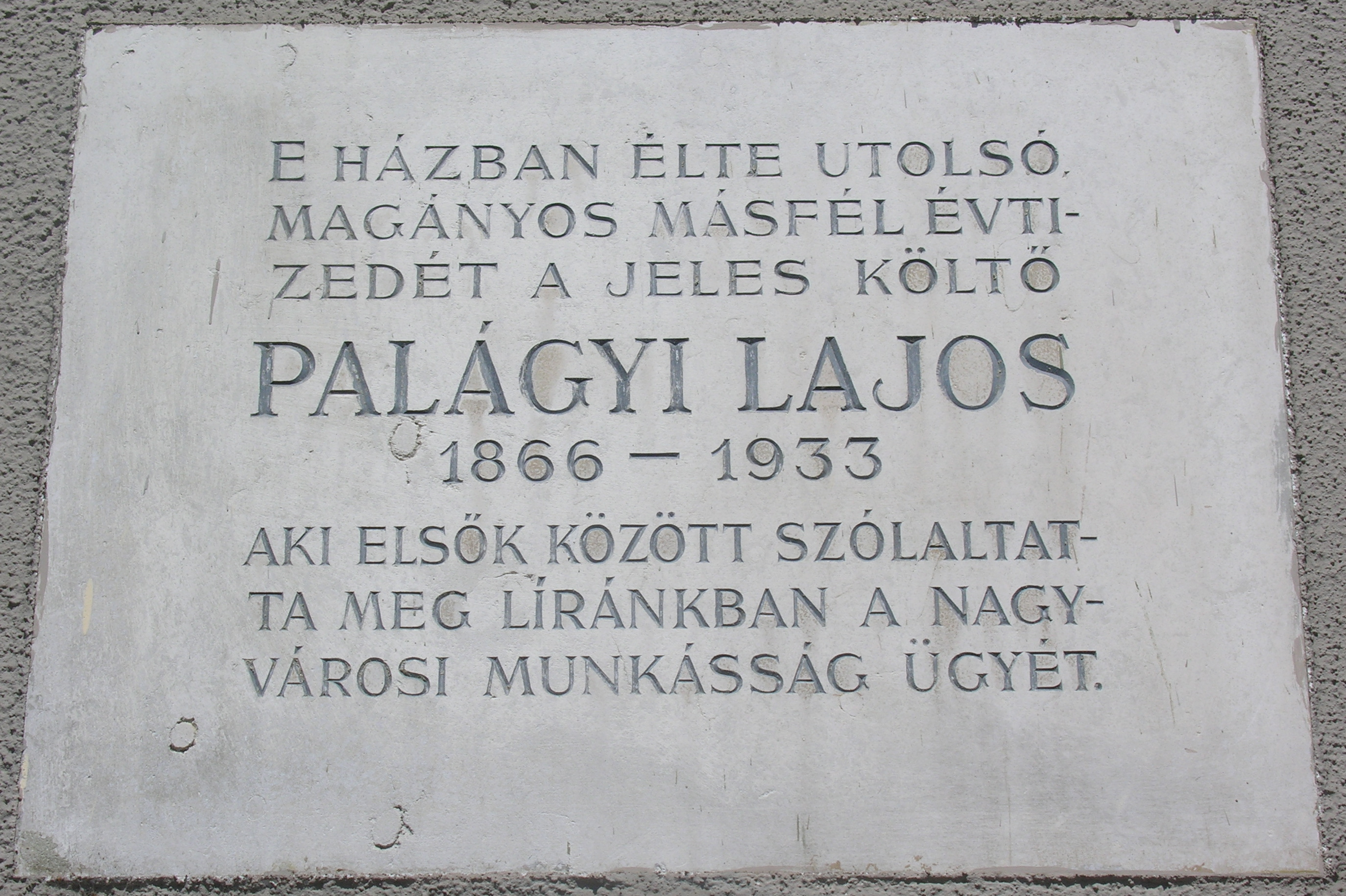 Commemorative plaque of the poet Lajos Palágyi in Budapest District II, Margit Boulevard No 5/a